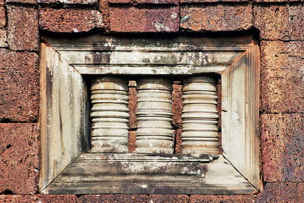 Pre Rup Temple. Angkor. Cambodia